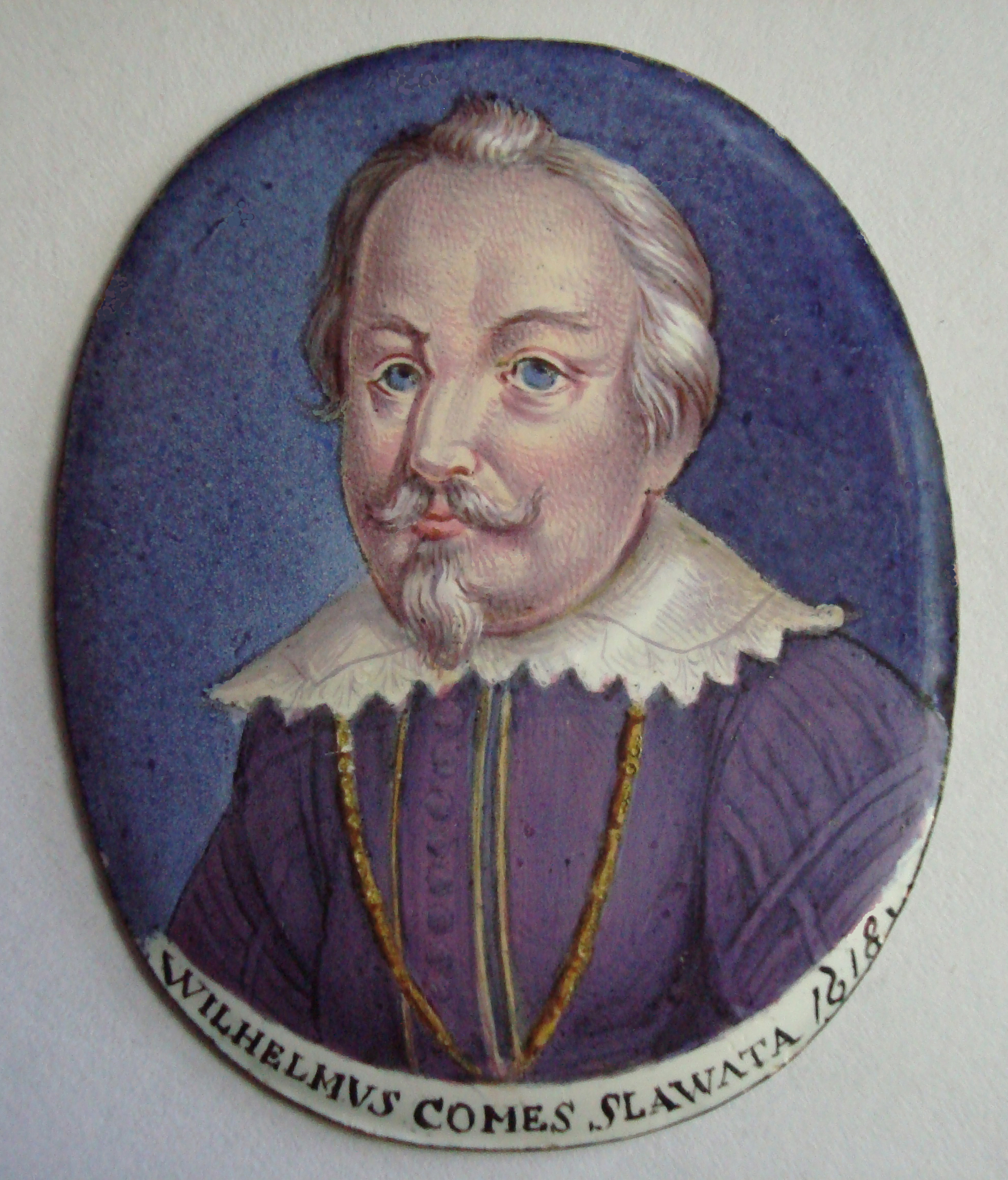 Vilem Slavata of Chlum